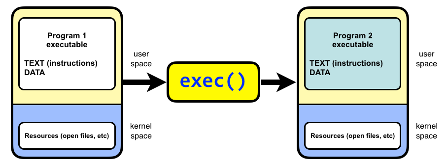 The exec family of system calls